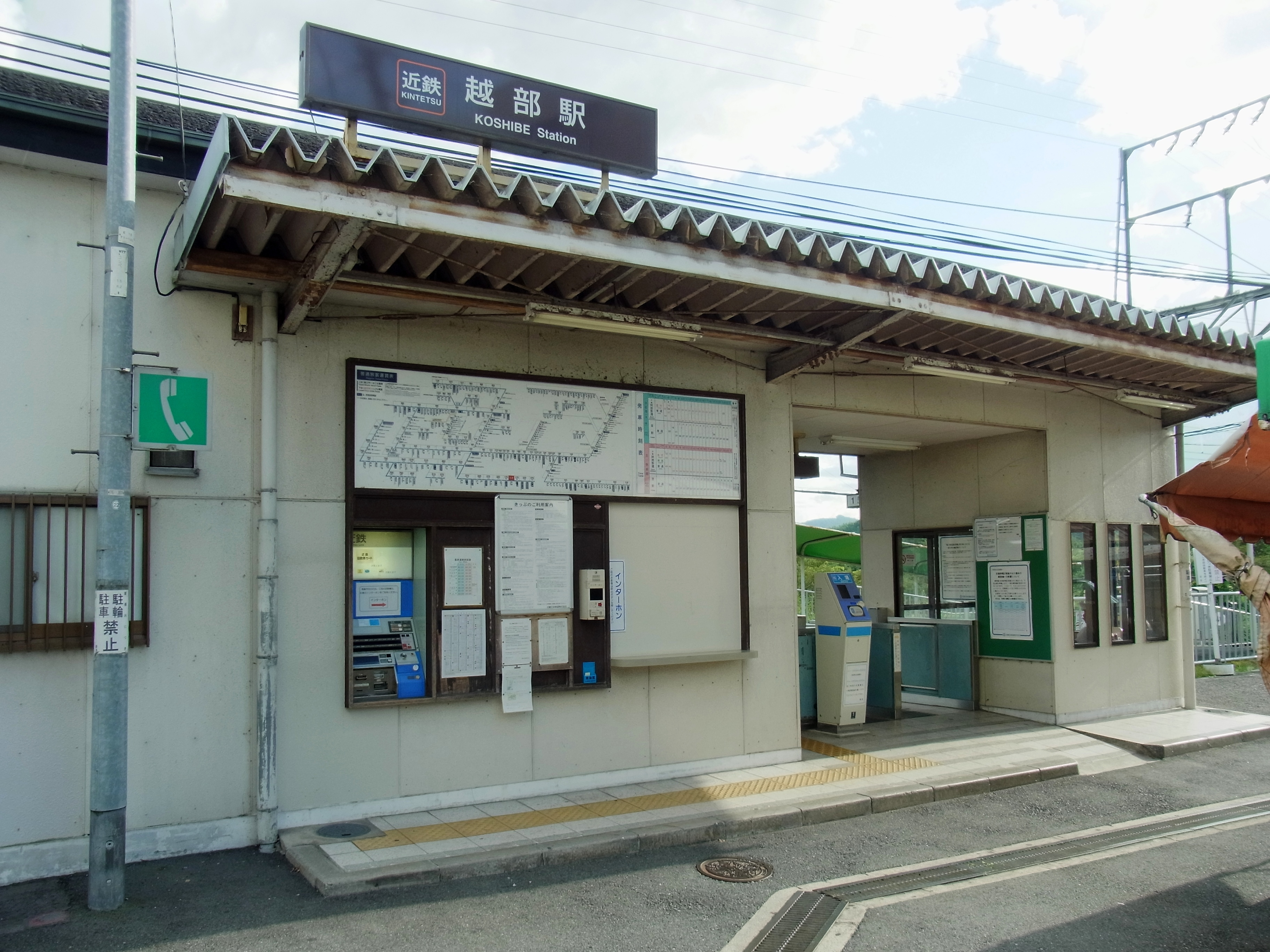 近鉄吉野線 越部駅 Koshibe station 2012.8.21